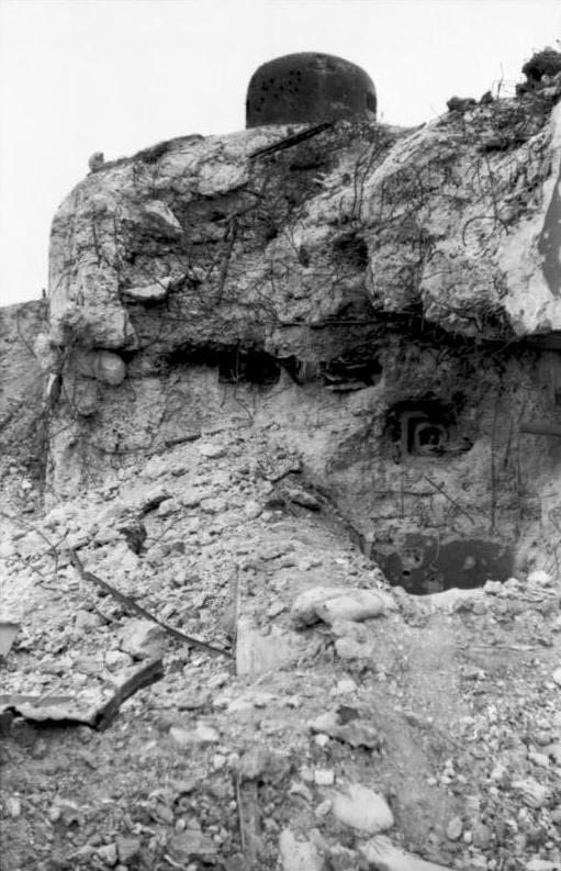 Information added by Wikimedia users. The factual accuracy of this description or the file name is disputed.Reason: It seems dubious that Arras region had so powerful Maginot line-type bunkers.